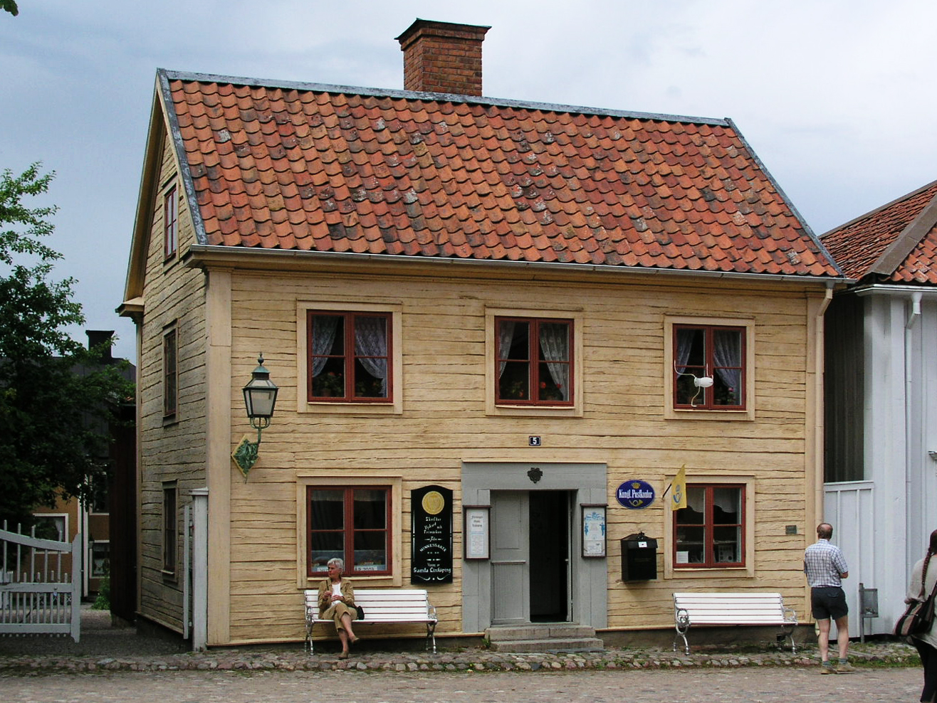 Old post office, Linköping, Sweden.